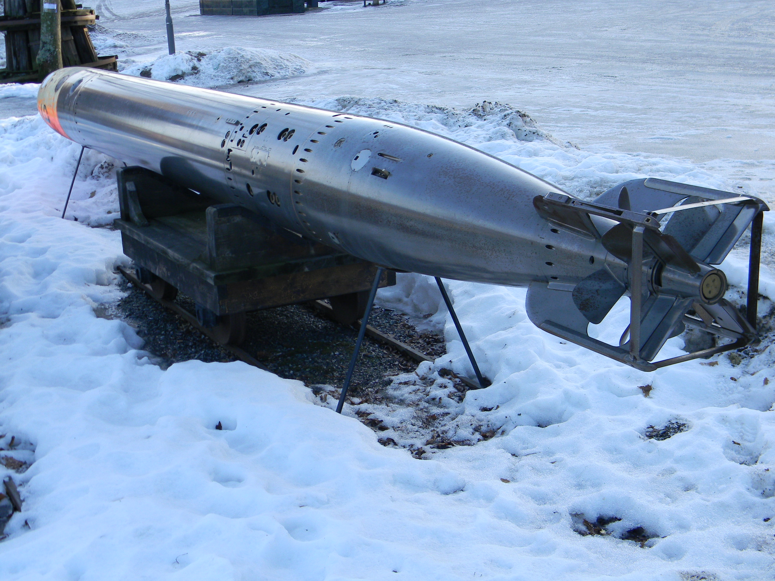 Swedish 533 mm torpedo